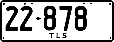 License plate from East Timor / Timor-Leste